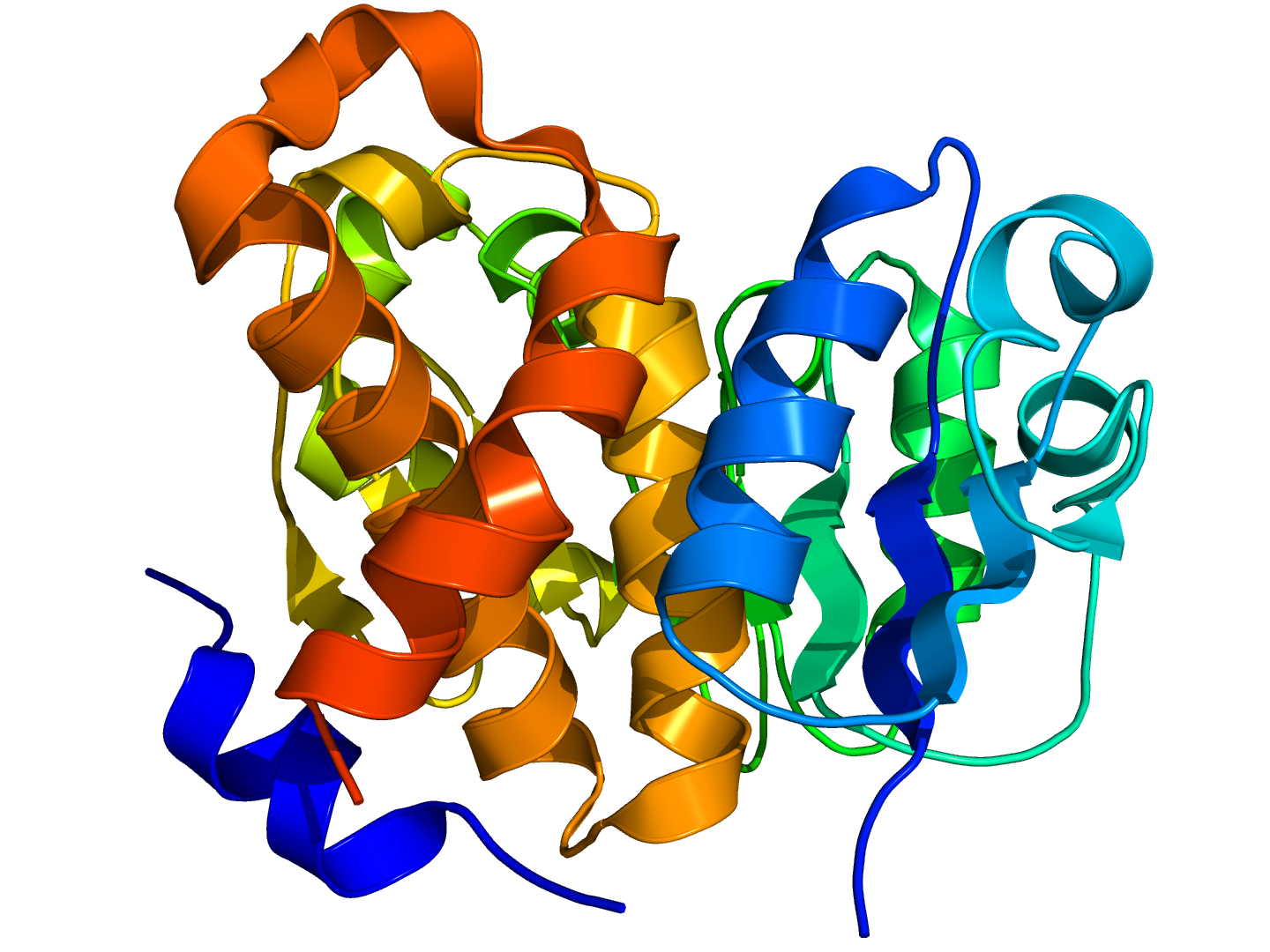 Crystallographic structure of a putative Bacillus subtilis carbohydrate kinase (rainbow colored, N-terminus = blue, C-terminus = red).[1]